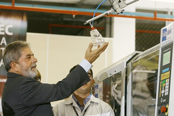 Brazilian President Lula at SENAI.